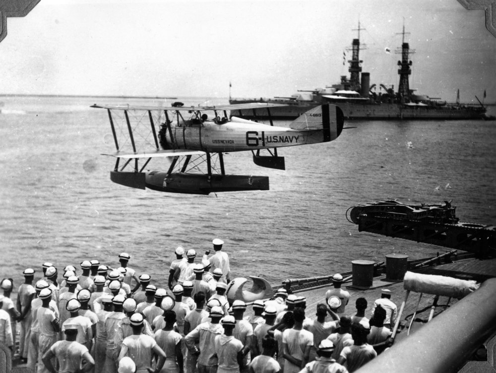 PictionID:38278595 - Catalog:AL-135A 198 Vought UO-1 A-6613 USS Nevada - Filename:AL-135A 198 Vought UO-1 A-6613 USS Nevada.tif - This image is from a photo album donated to the Museum by JL Highfill, who was a photographer for the Navy before and during the Second World War-----------PLEASE TAG this image with any information you know about it, so that we can permanently store this data with the original image file in our Digital Asset Management System.-----------------SOURCE INSTITUTION: San Diego Air and Space Museum Archive